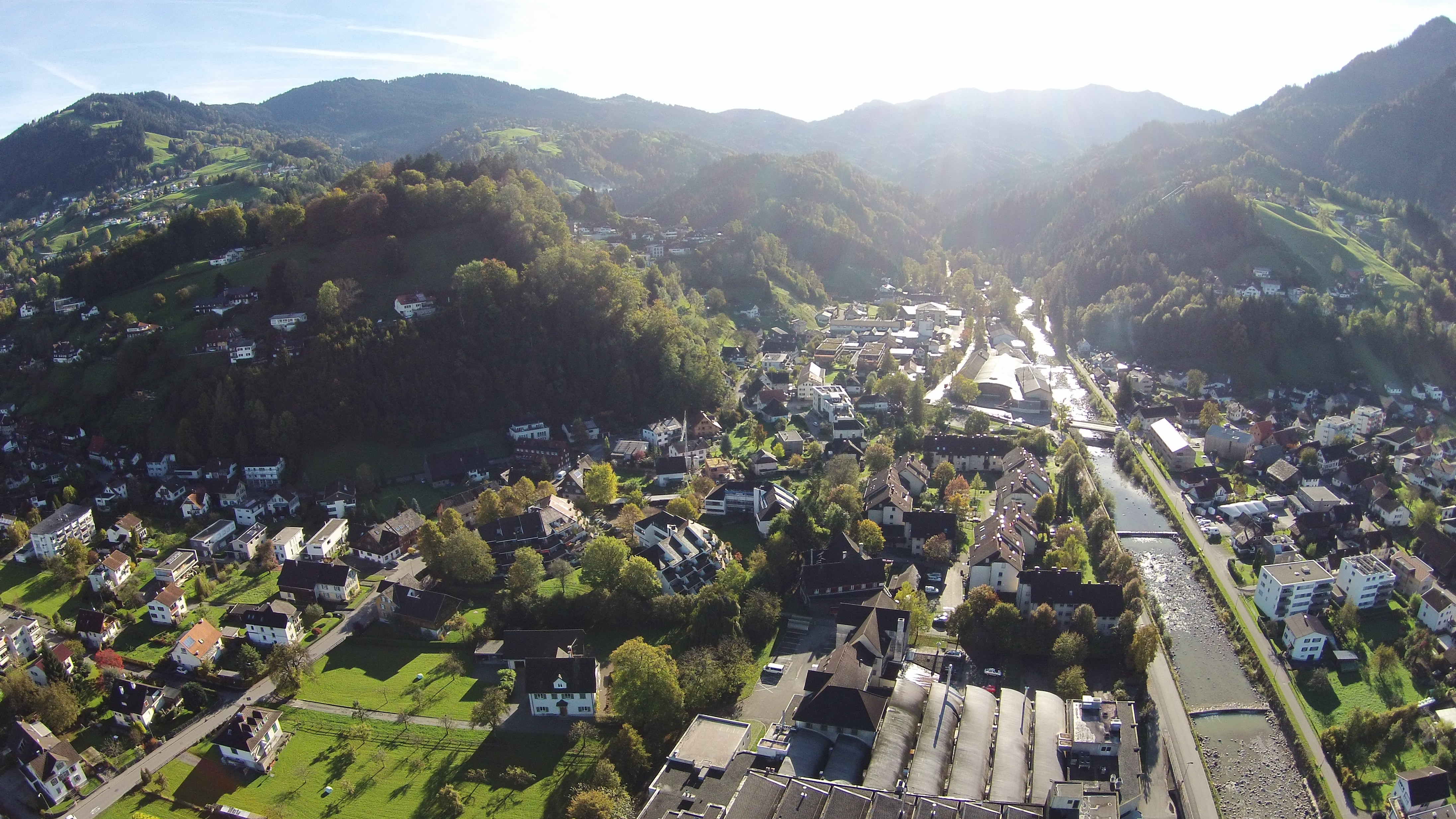 Zanzenberg, Dornbirn, Vorarlberg. View from the west. In the background the Schwende and Boedele / Hochaelpele. In the middle the First and on the right side Bürgle.